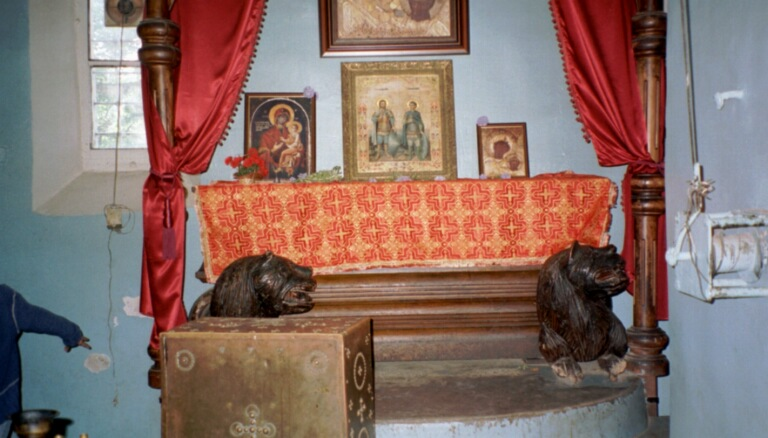 Motsameta Church near Kutaisi. The monastery was founded in the 8th century, the present church and bell tower were built by Bagrat III in the 11th century. The frescos were destroyed by the Bolsheviks.